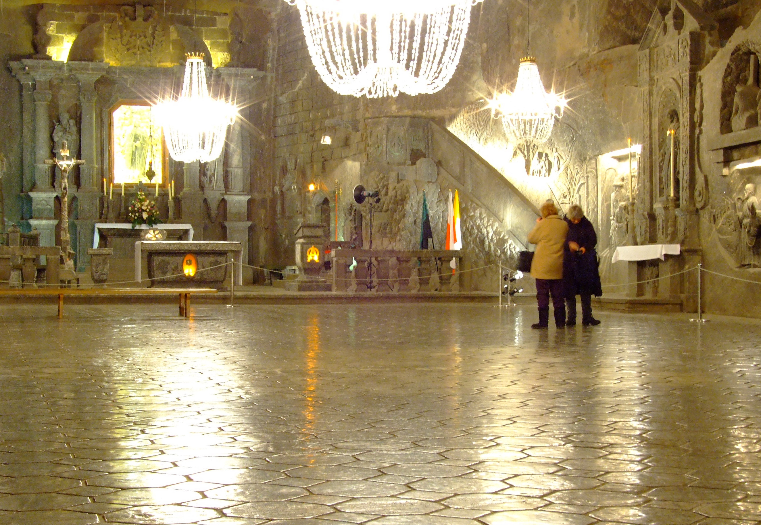 In Saint Kinga chapel in Wieliczka Salt Mine, Lesser Polish Voivodship, Polandhelp